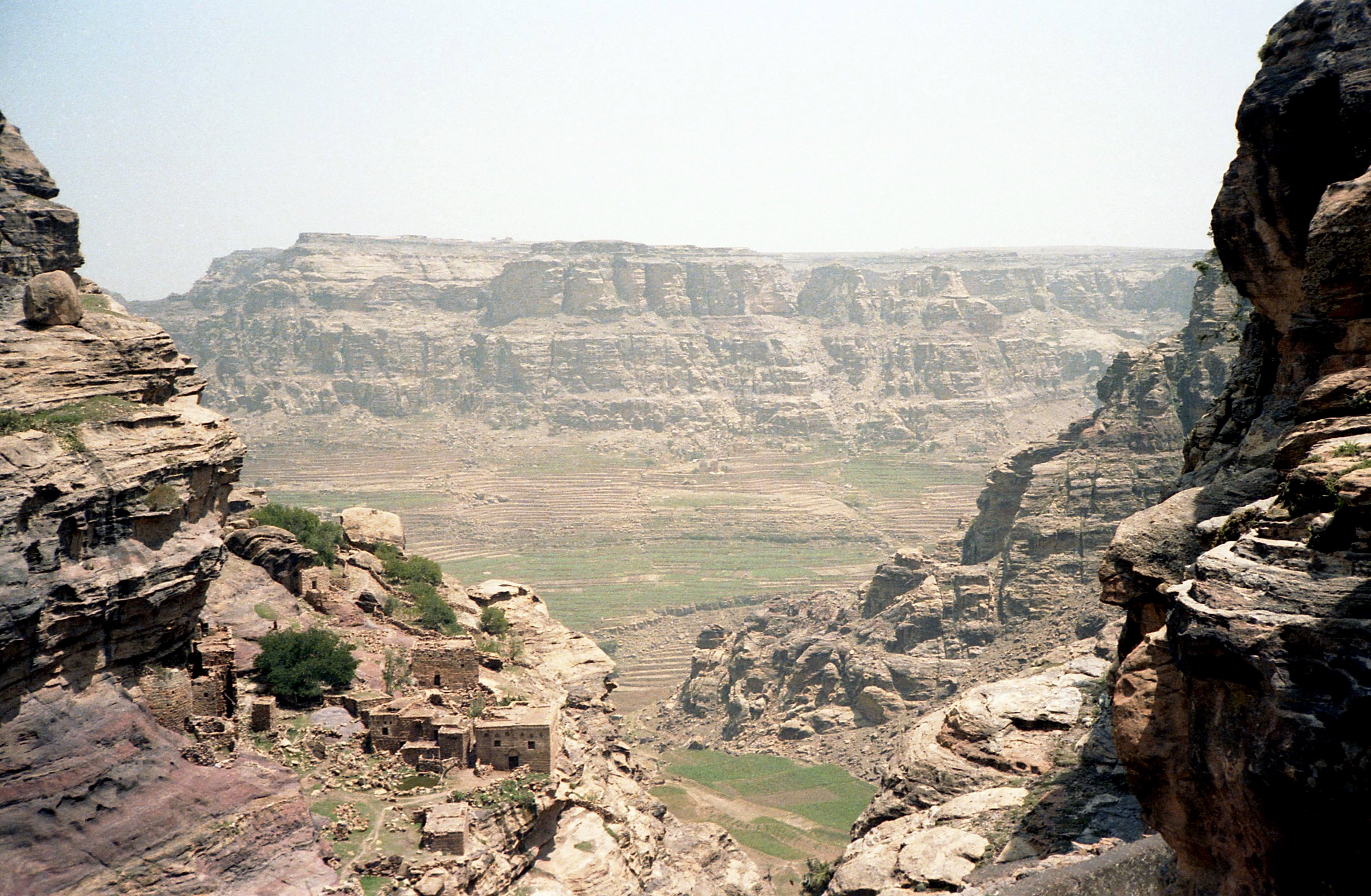 Between Kawkaban and At Tawilah, Yemen